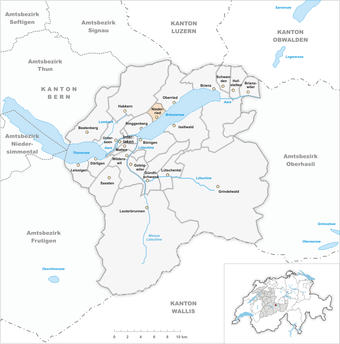 Municipality Niederried bei Interlaken